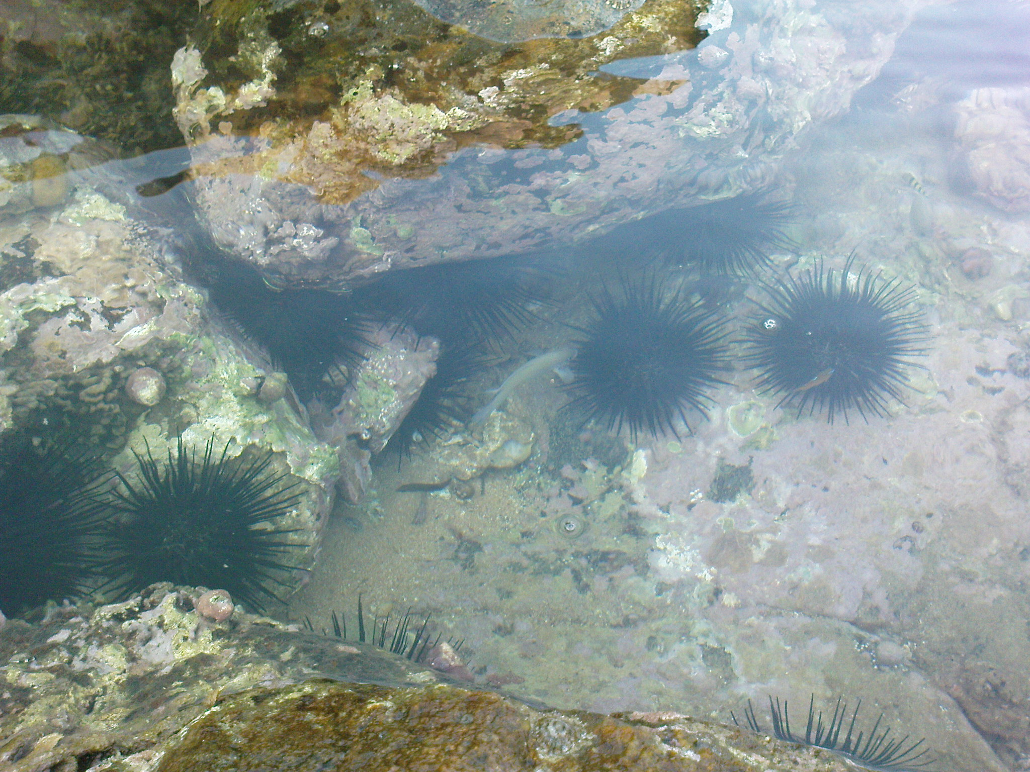 Sea urchins (Stomopneustes variolaris) in Tangalle beach, Sri Lanka. They can be found no far away from the shore. සිංහල: තංගල්ල නොගැඹුරු මුහදේ වෙසෙන වෙසෙන මුහුදු ඉකිරි. මුහුදු වෙරළට ඉතා ආසන්නයේ ඇති ගල් පර අතර මොවුන් හමු වේ.